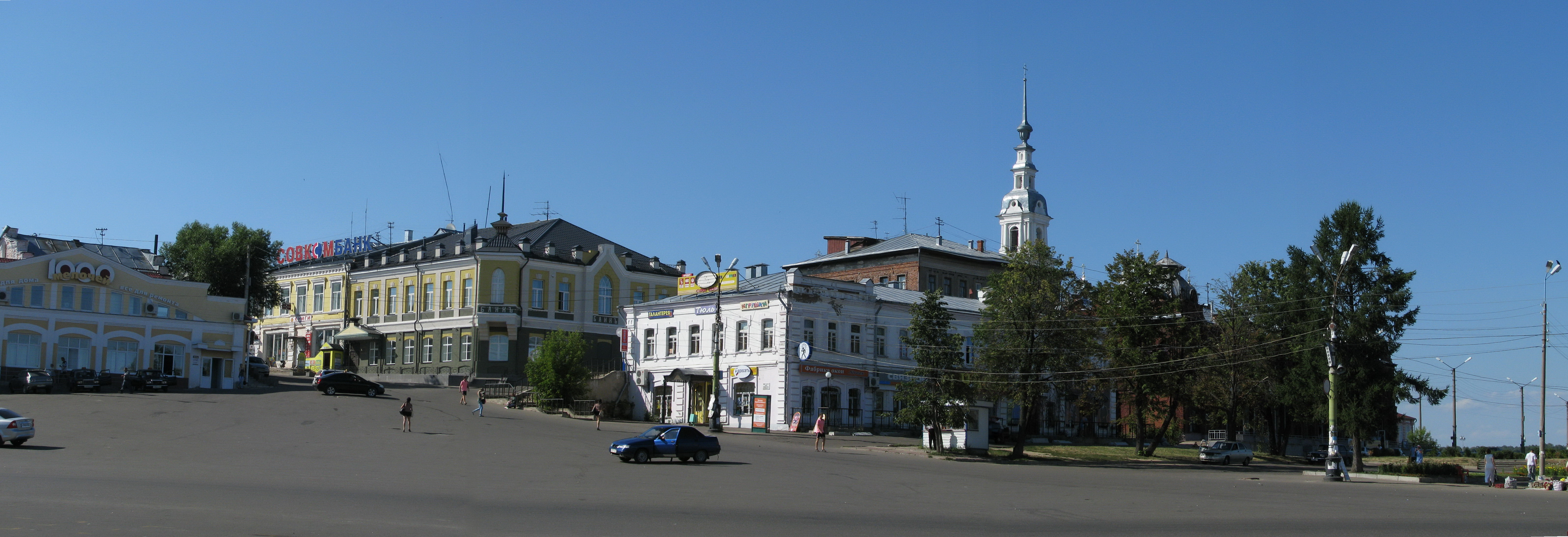 Панорама городской площади